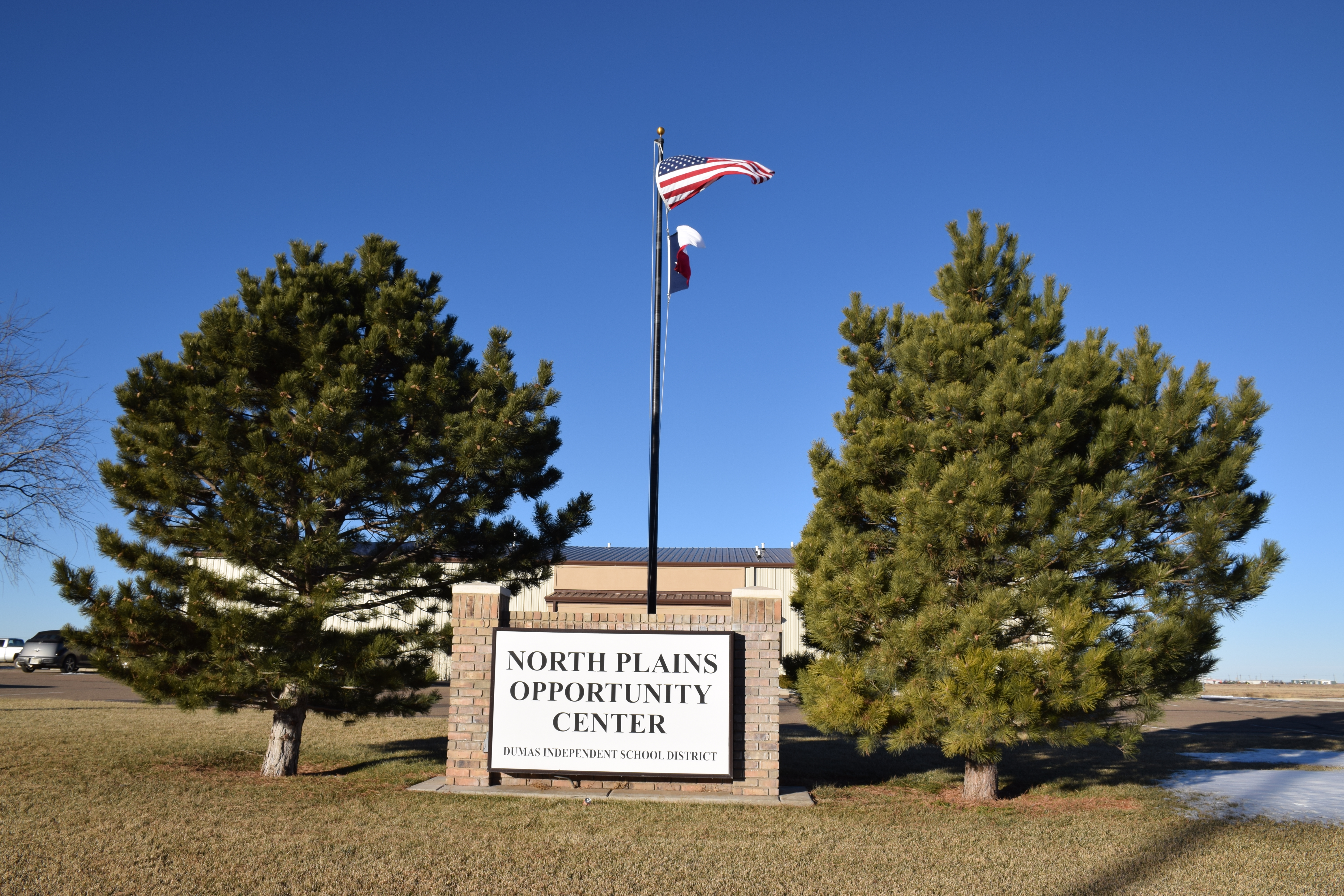 this is the front of the building